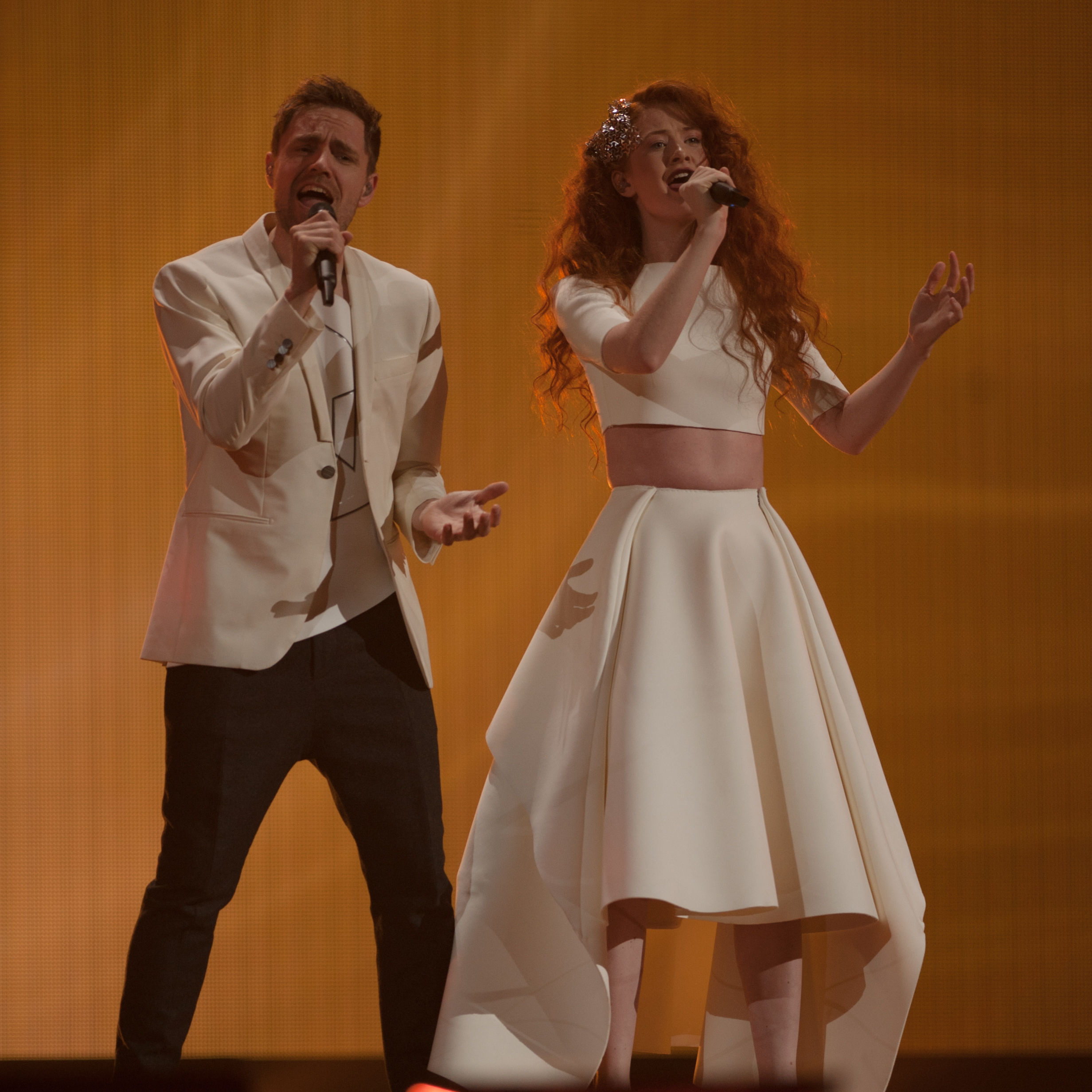 Eurovision Song Contest Vienna 2015: Mørland & Debrah Scarlett